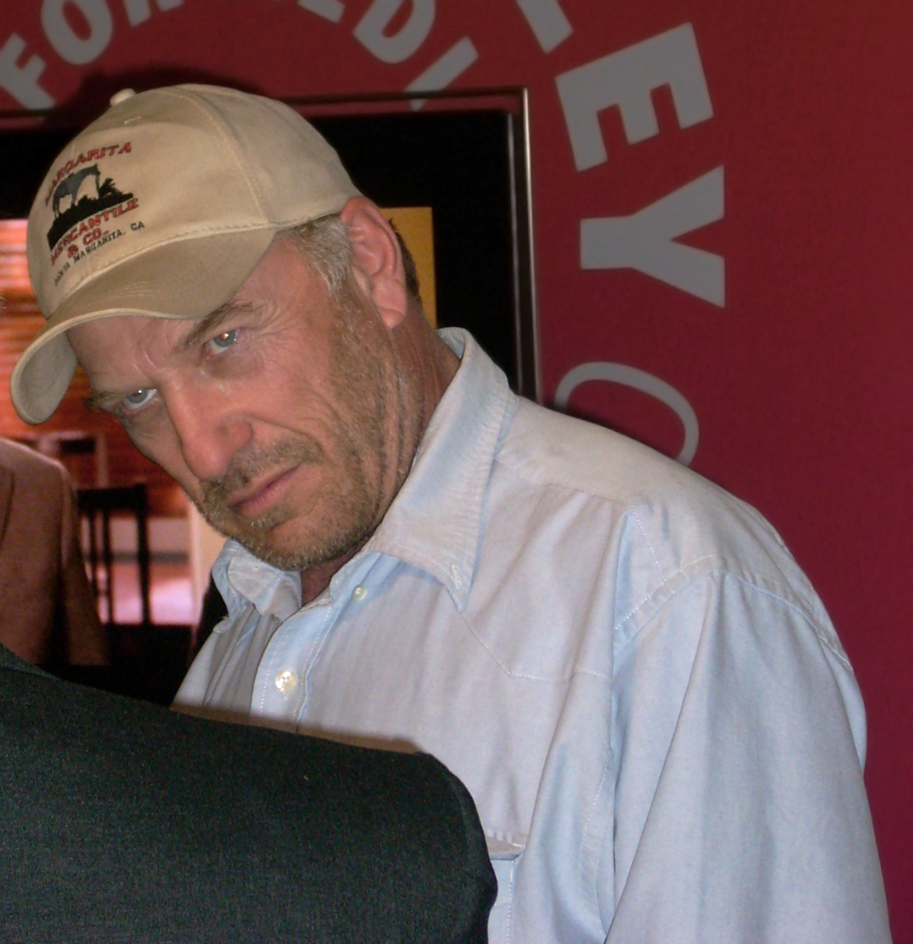 "Monk: 100 Episodes and Counting..." - Paley Center for Media, Dec. 2, 2008